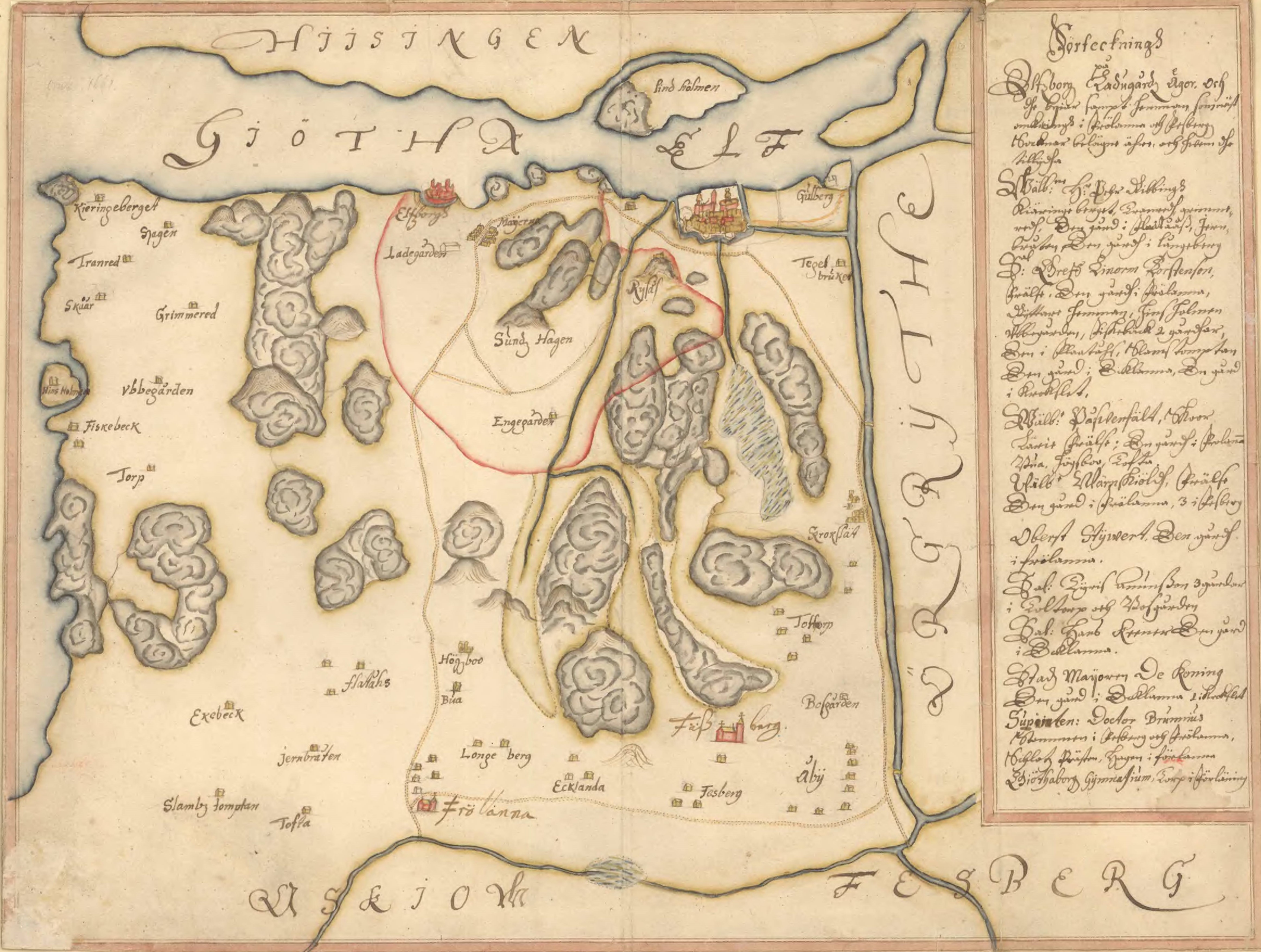 Map showing the boundaries of the Crown land close to the castle Älvsborg, near Göteborg in Sweden. Dated around 1660.